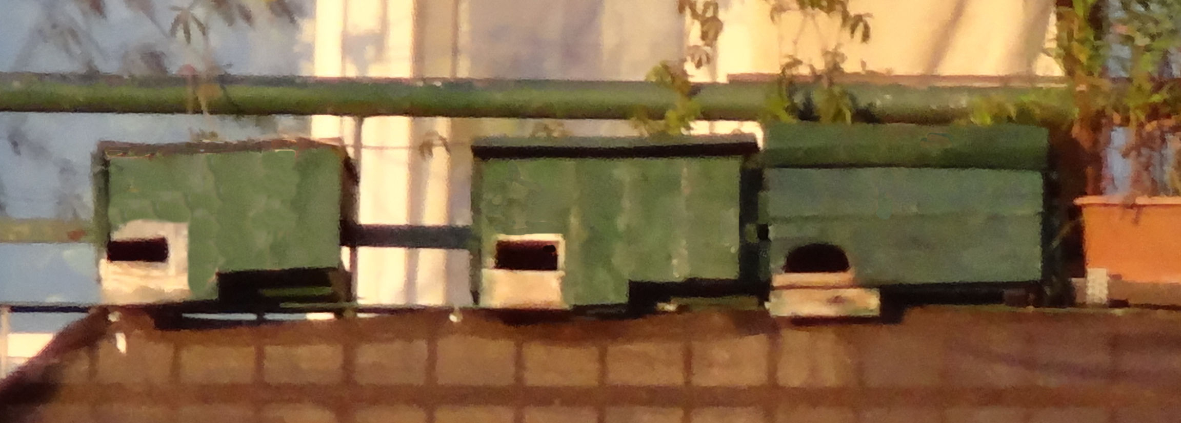 nest box